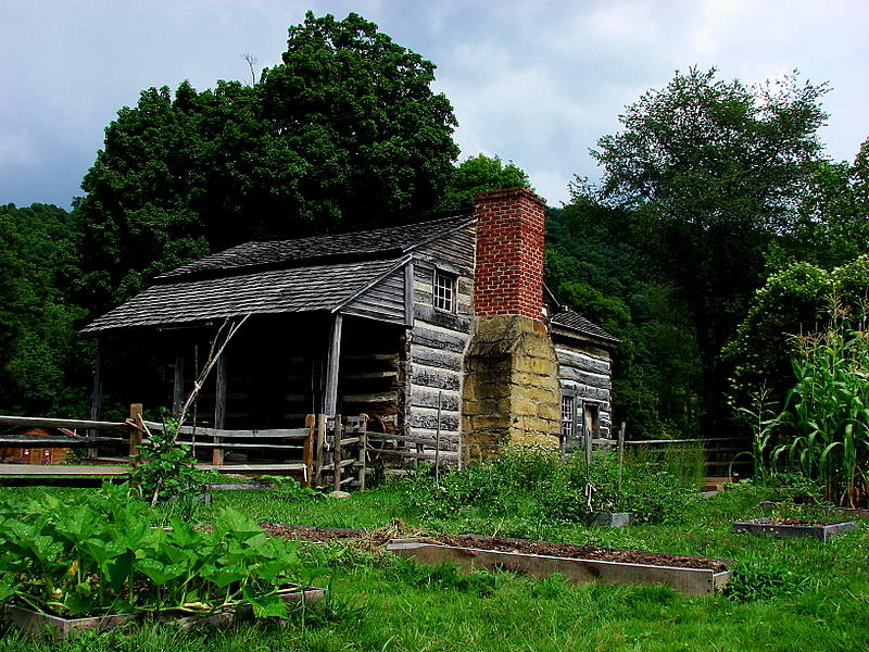 located in Jackson's Mill, WV garden in foreground